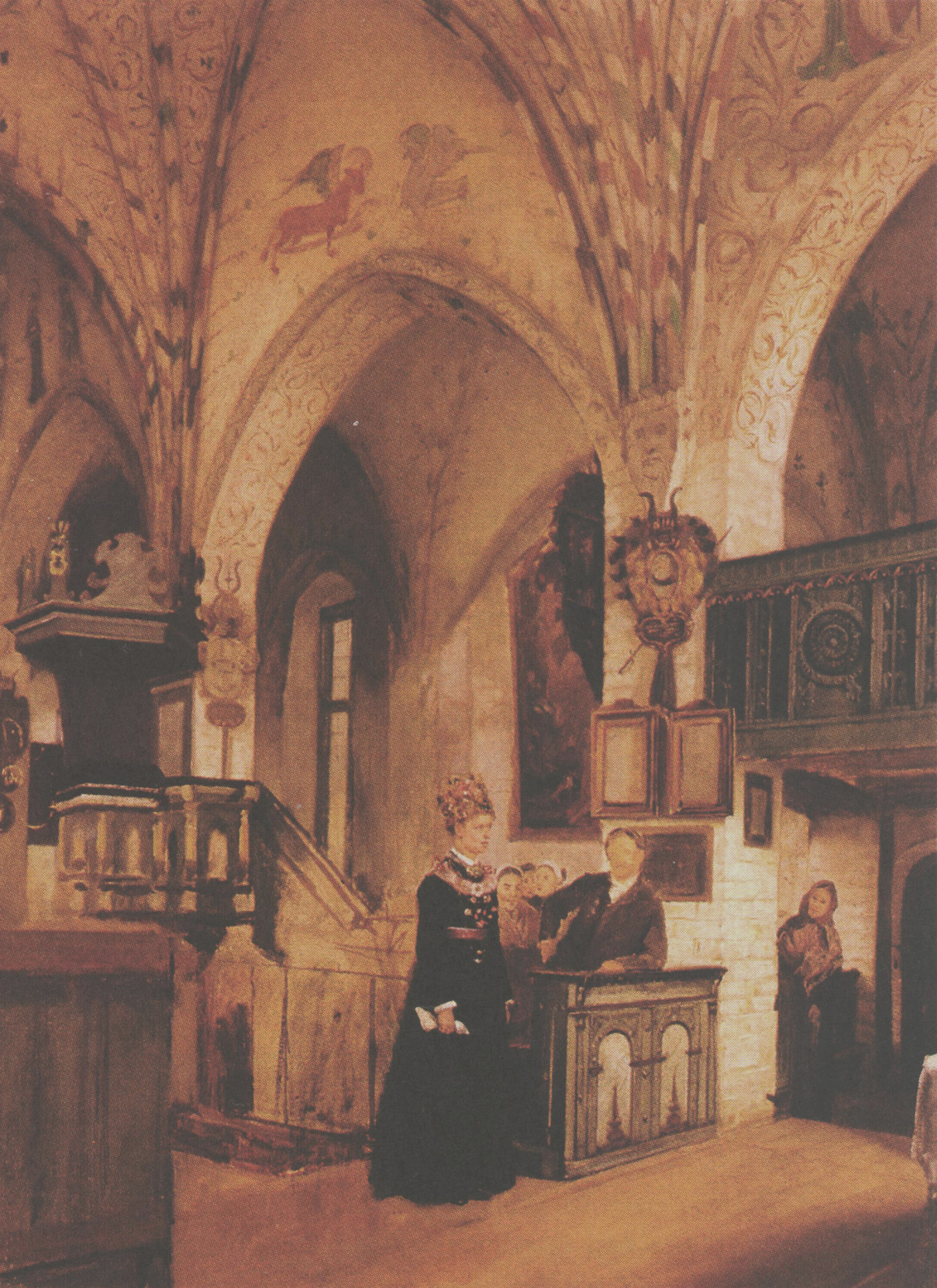 From the church of Taivassalo in Finland Proper. Painting by Arvid Liljelund.